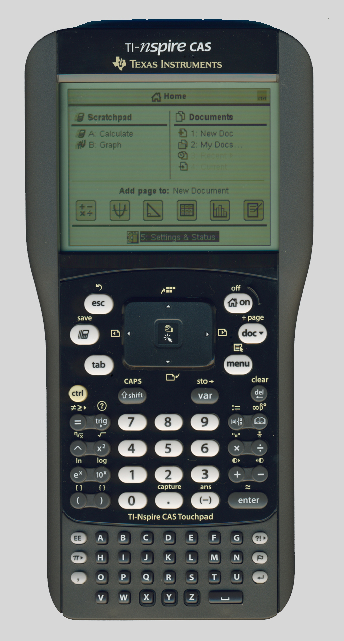 TI-Nspire CAS with Touchpad